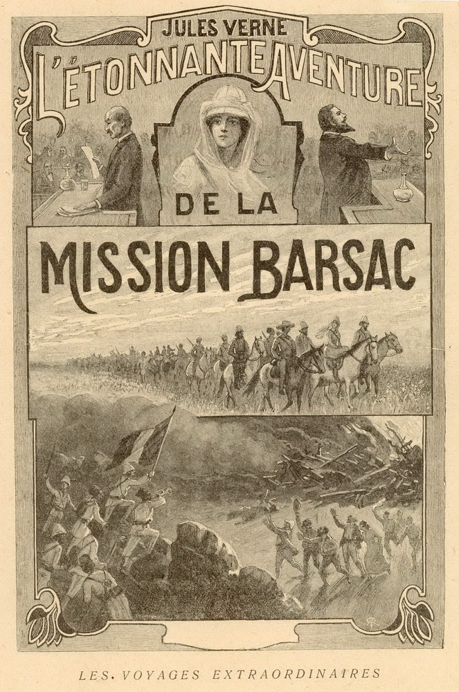 Original ilustration by G. Roux to book J. Verne